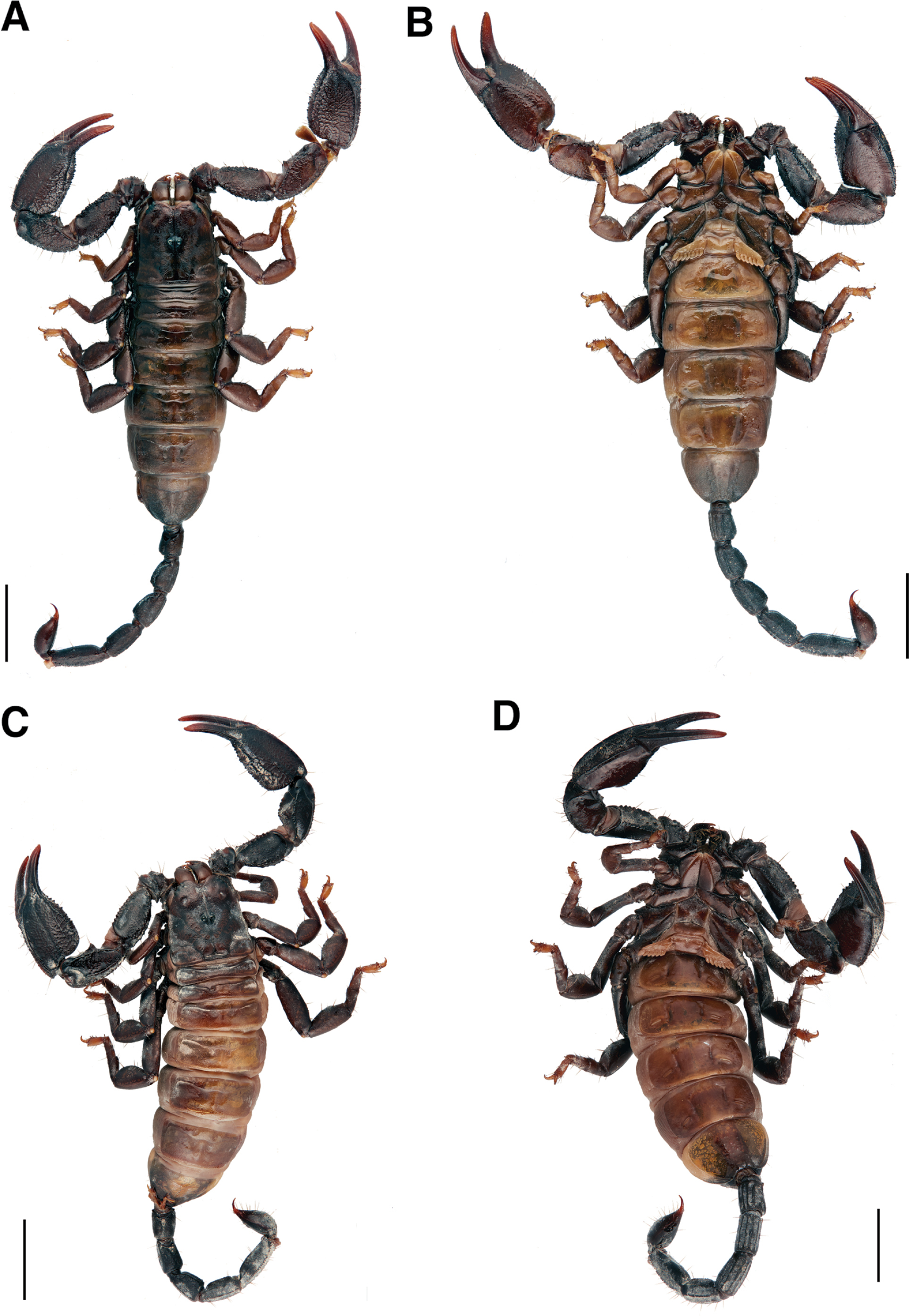 Figure 37; Opisthacanthus minor Kraepelin, 1911 [= Opisthacanthus validus Thorell, 1876], subadult male syntype (A–B), subadult female syntype (C–D): A, C dorsal aspect of habitus B, D ventral aspect of habitus. Scale bars: 10 mm.